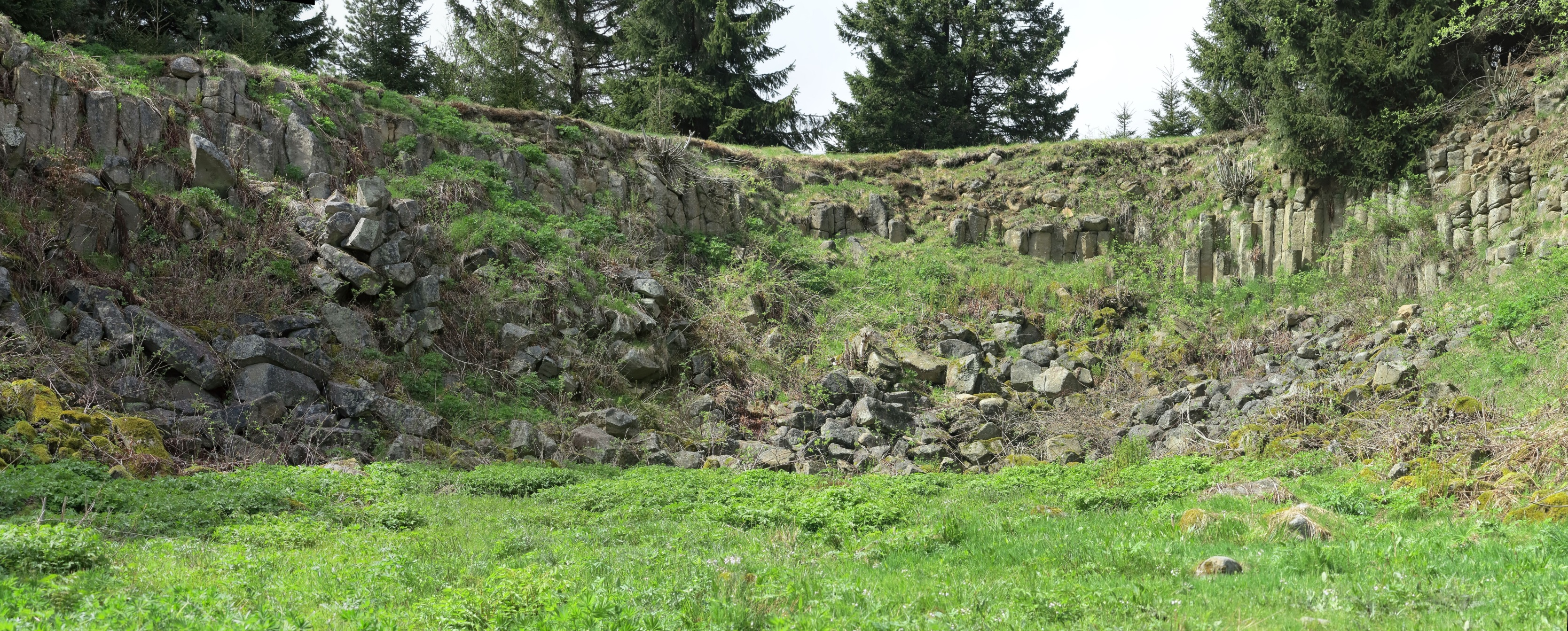 Stone quarry (Basalt)